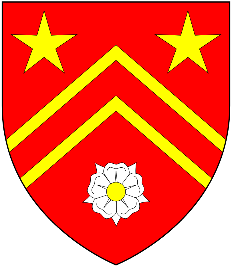 Arms of Swete of Traine, Modbury, Devon: Gules, two chevronels between in chief as many mullets or and in base a rose argent seeded of the second (Report by R. P. Graham-Vivian, Windsor Herald, College of Arms, London, 1963: "A coat of arms was granted to Guy Swete of Trayne (in parish of Modbury, Devon) by Edward IV in 1473. Description: Gules, two chevrons between as many mullets in chief and a rose in base Argent seeded Or. Crest: a mullet Or pierced Azure between two gilly flowers proper". see:[1])